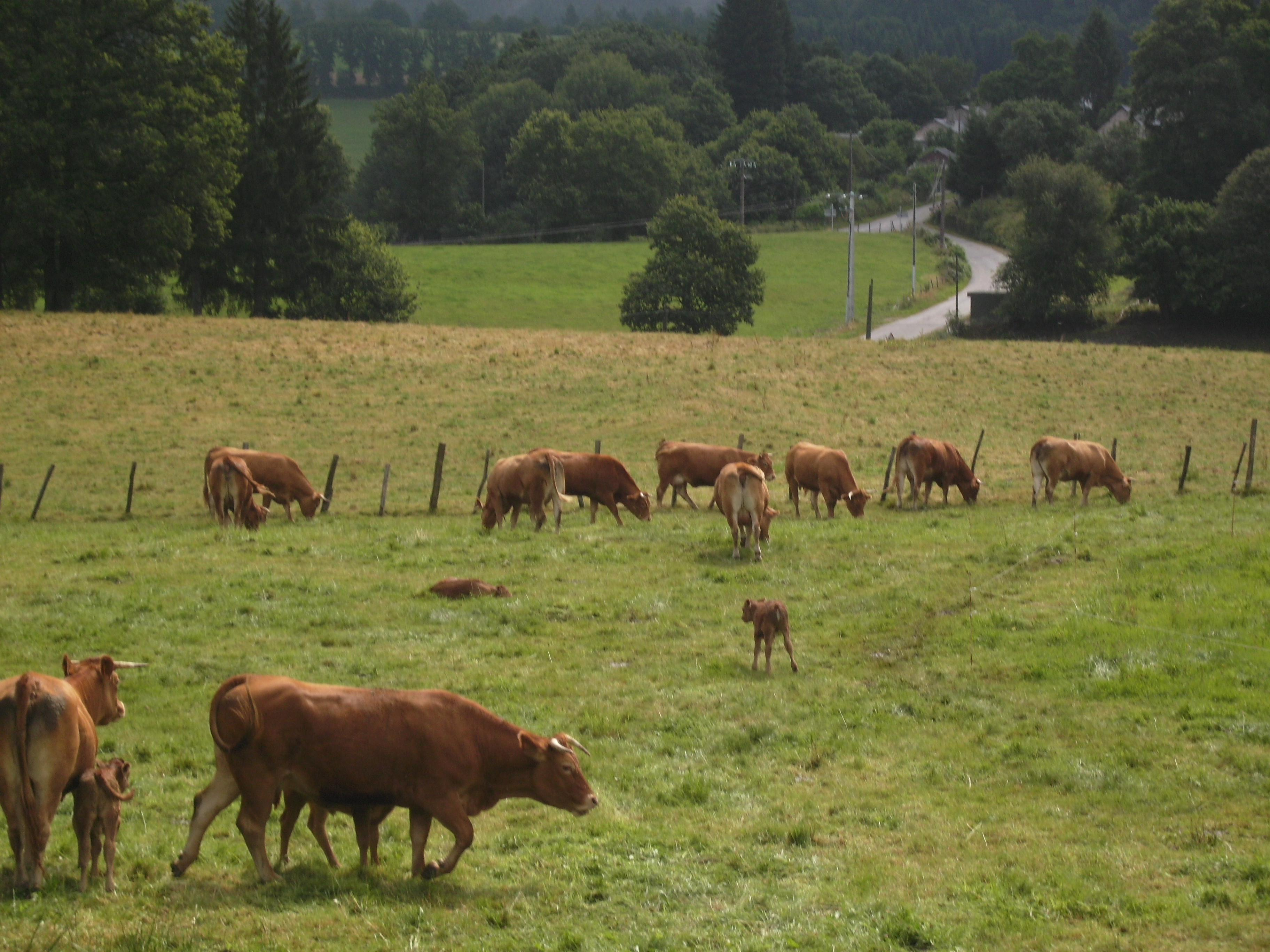 Limousin cattle grazing at Rempnat Chez Chapelle on the Millevaches Massif.